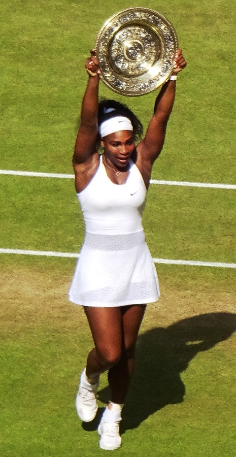 Serena Williams beat Garbiñe Muguruza 6–4, 6–4 to win her sixth Wimbledon singles trophy, Dish Venus Rosewater.